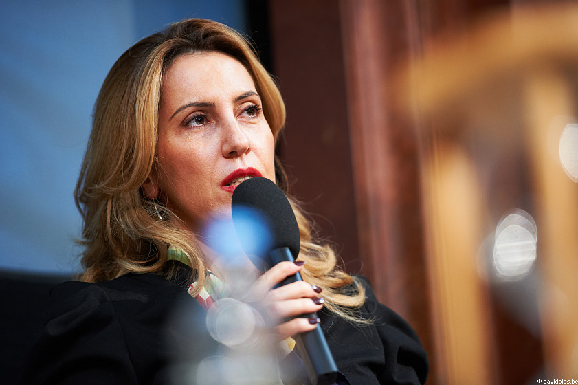 Albanian minister for European Integration, Majlinda Bregu